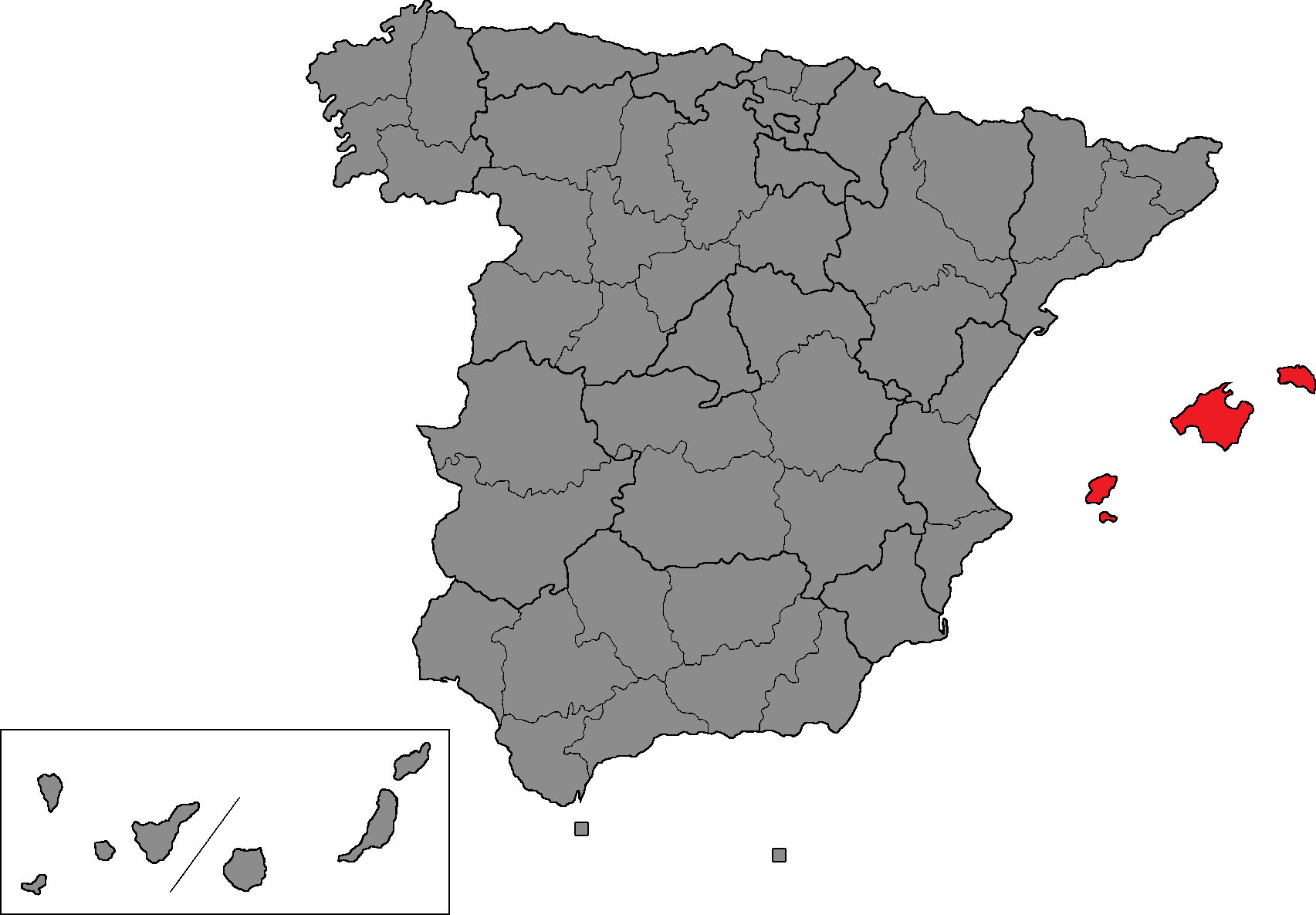 Spanish Congress of Deputies district of the Balearic Islands.